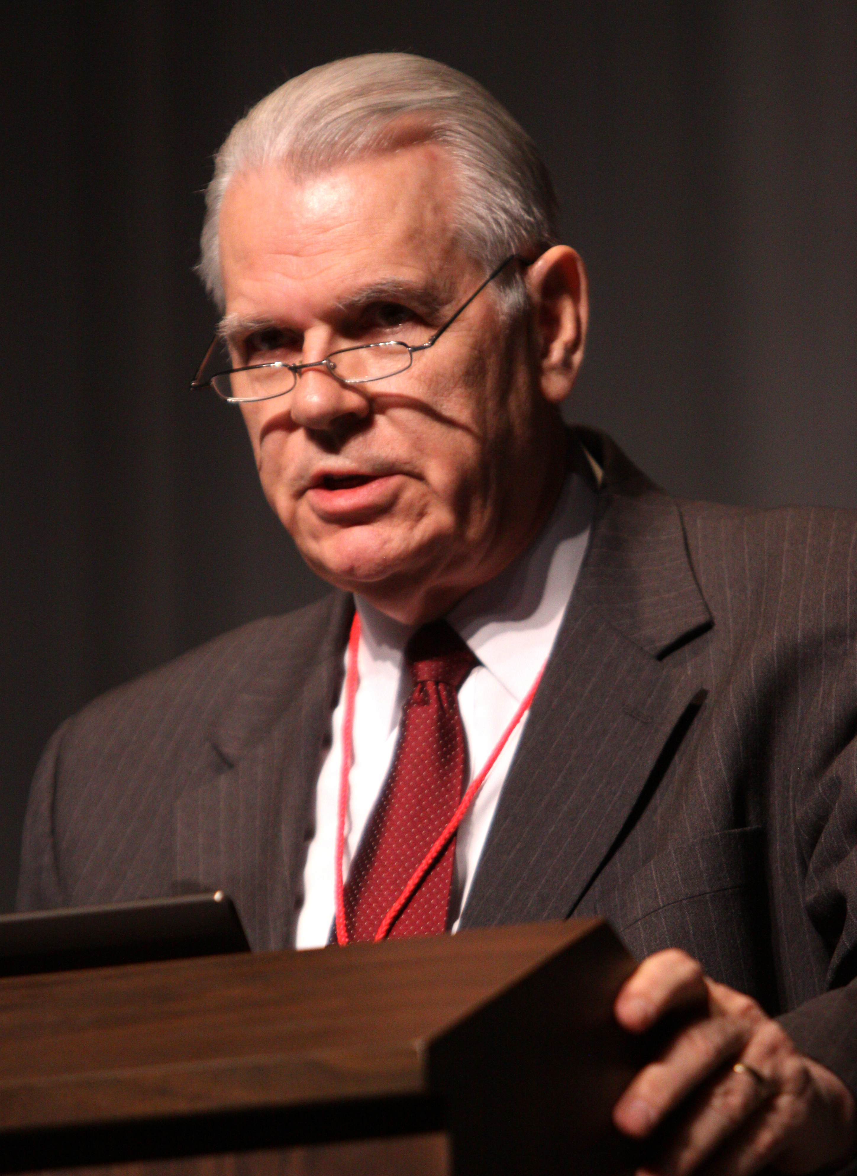 Arthur Thompson at a political conference in Reno, Nevada.